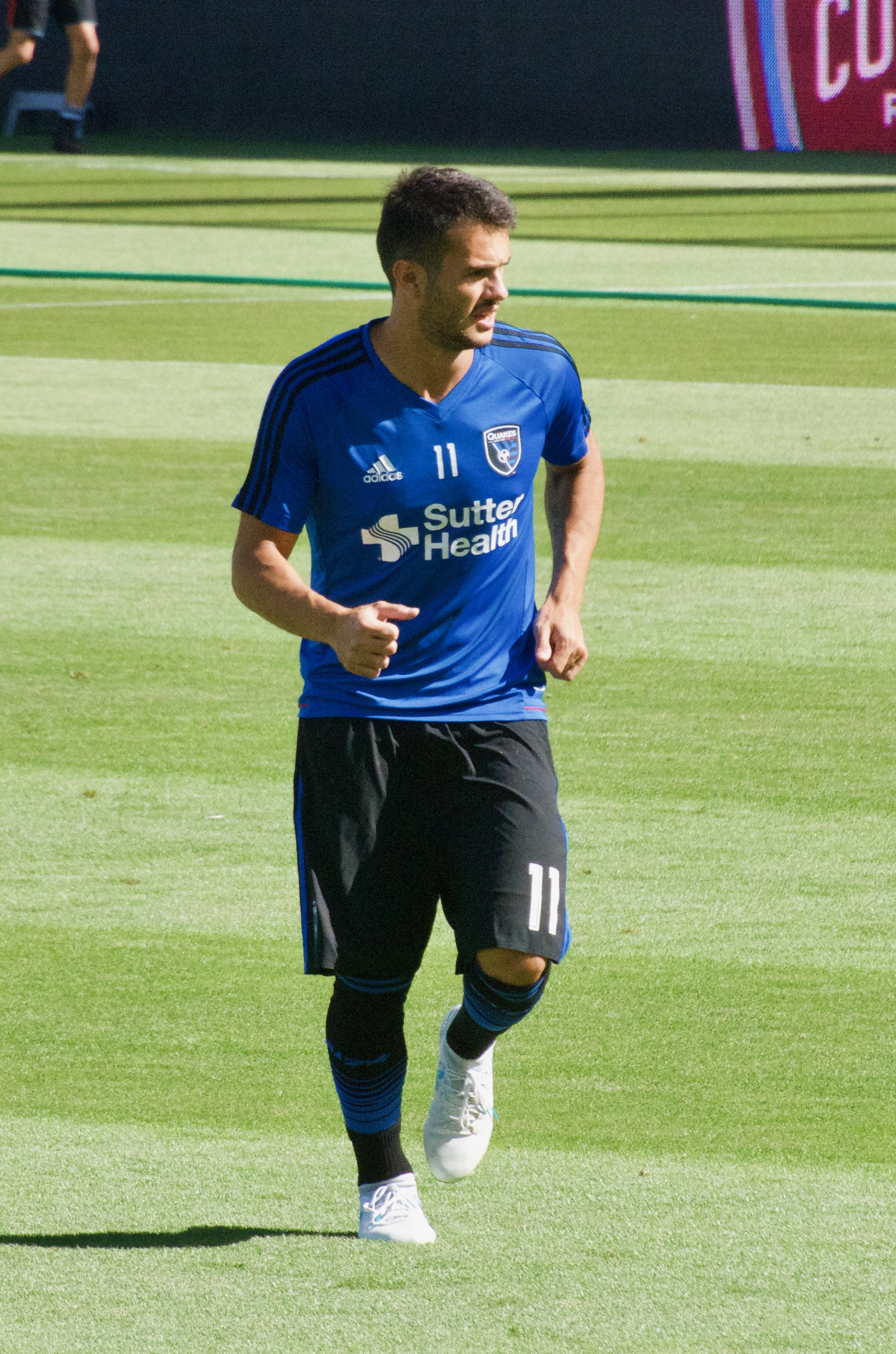 Vako Qazaishvili warming up for the San Jose Earthquakes at Avaya Stadium, 29 July 2017